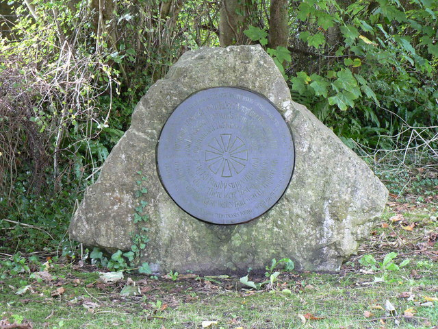 Memorial at Sigingstone, Wales to commemorate the 12 March 1950 LLandow air disaster. This photo was taken before the plaque underwent renovation. A non-free closeup of the plaque after renovation, where the text is easily readable, can be found at